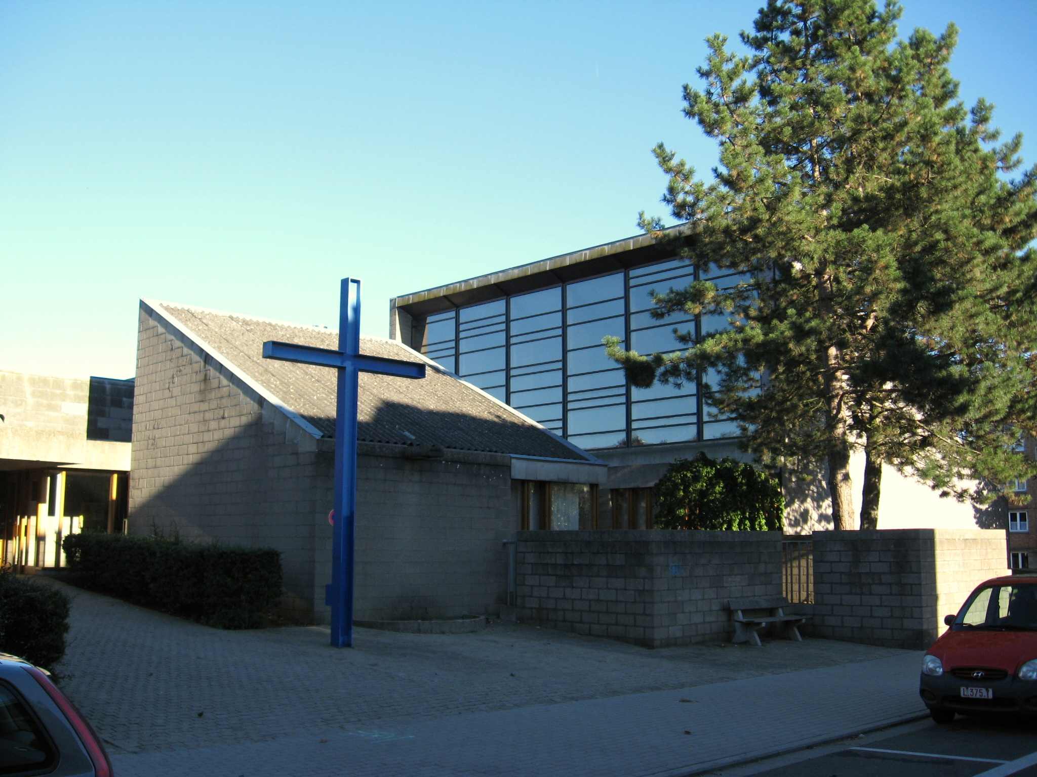 Church of Our Lady Mediatrix in Verviers, Liège, Belgium